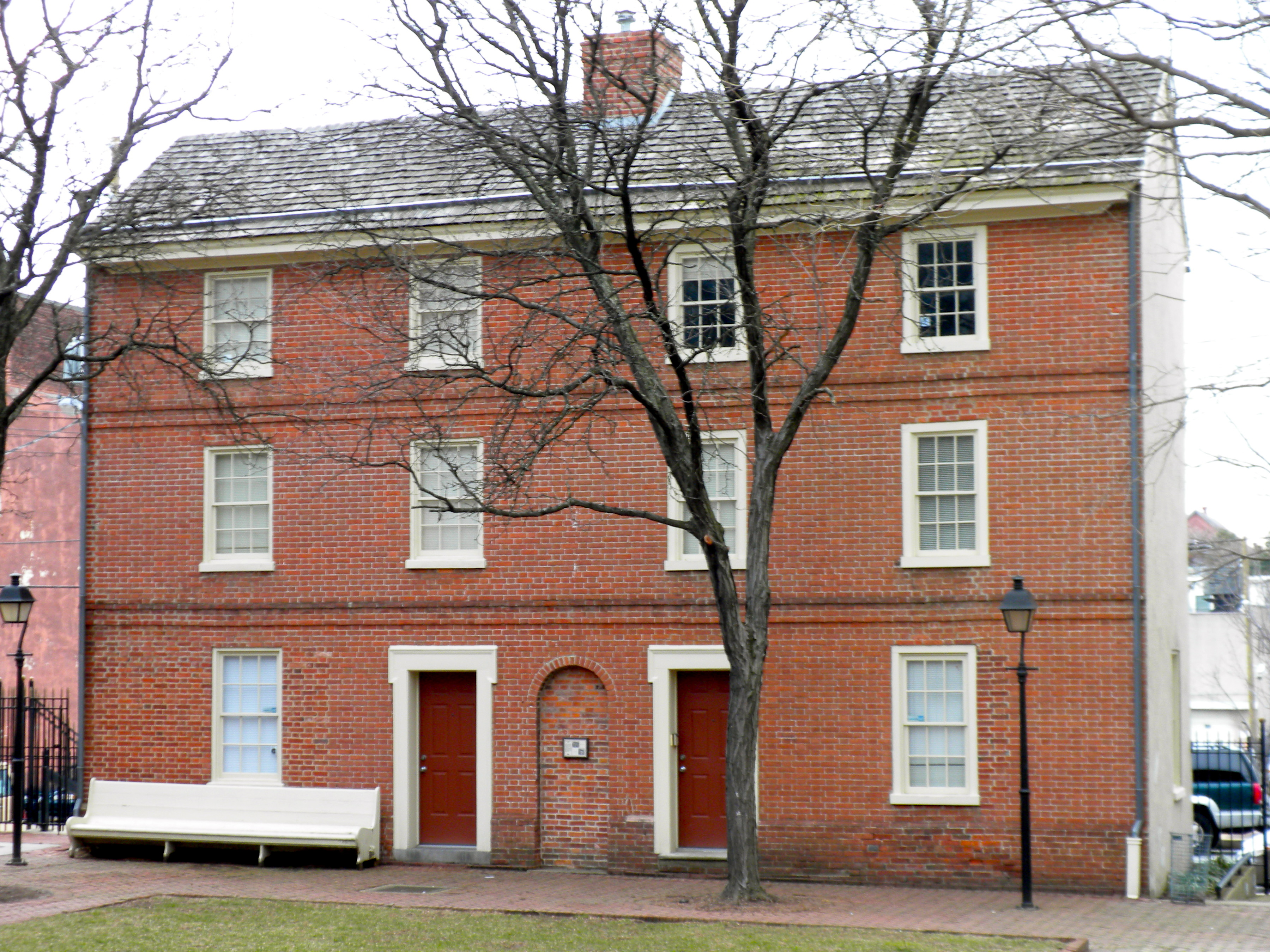 The Thomas Coxe House, part of Willingtown Square on North Market Street in Wilmington, Delaware. The historic houses on Willingtown Square, part of the Old Town Hall Commercial Historic District, are owned by the Delaware Historical Society; they were moved from other parts of Wilmington in 1976 to save them from demolition. The Coxe House was built in 1801 and was originally located at 107-109 East Sixth Street.